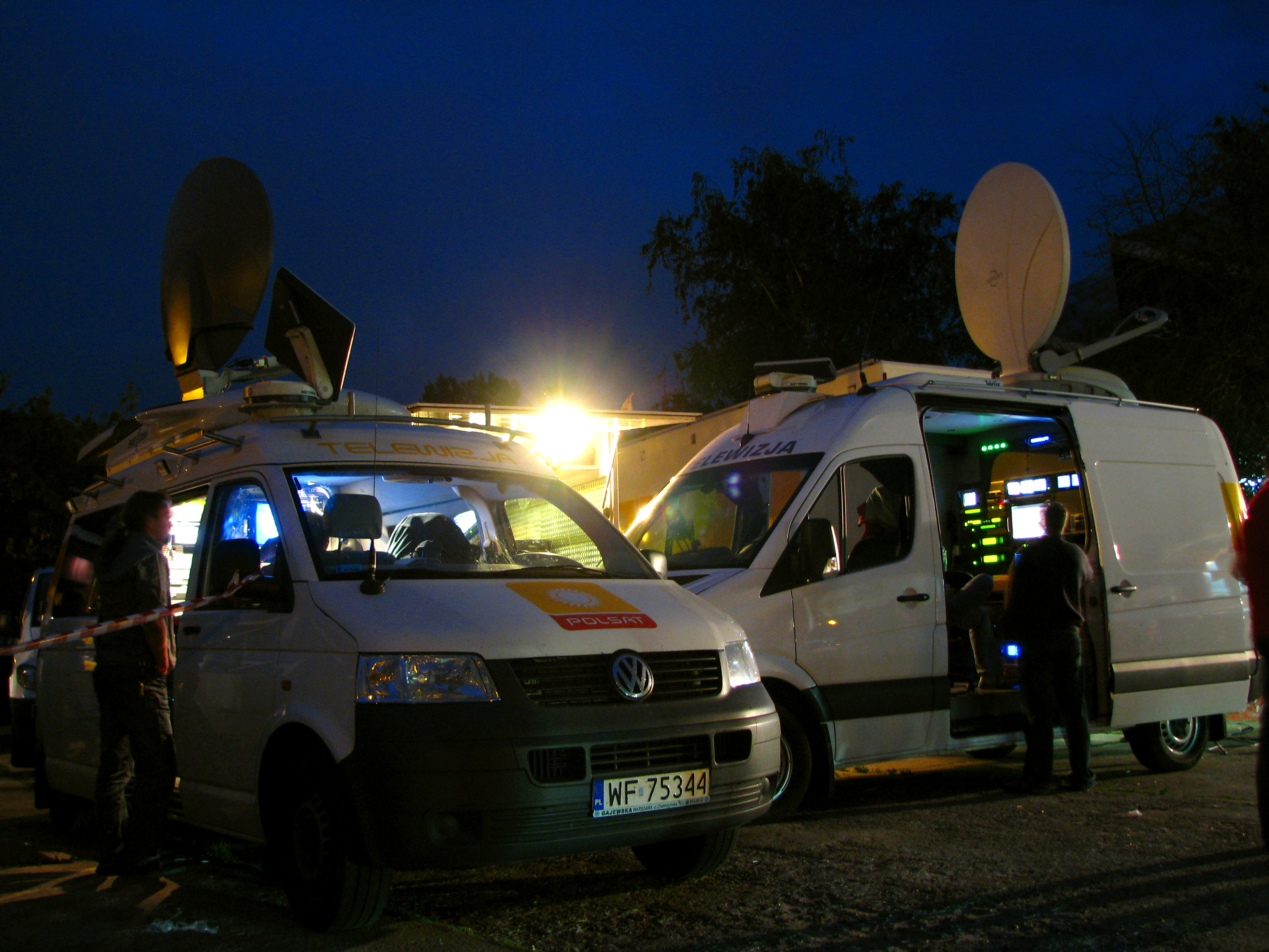 Outside broadcasting van TV POLSAT. Satellite cars during transmission from volley-ball world league. Poznań 2008. Poland. Poznań. 2008